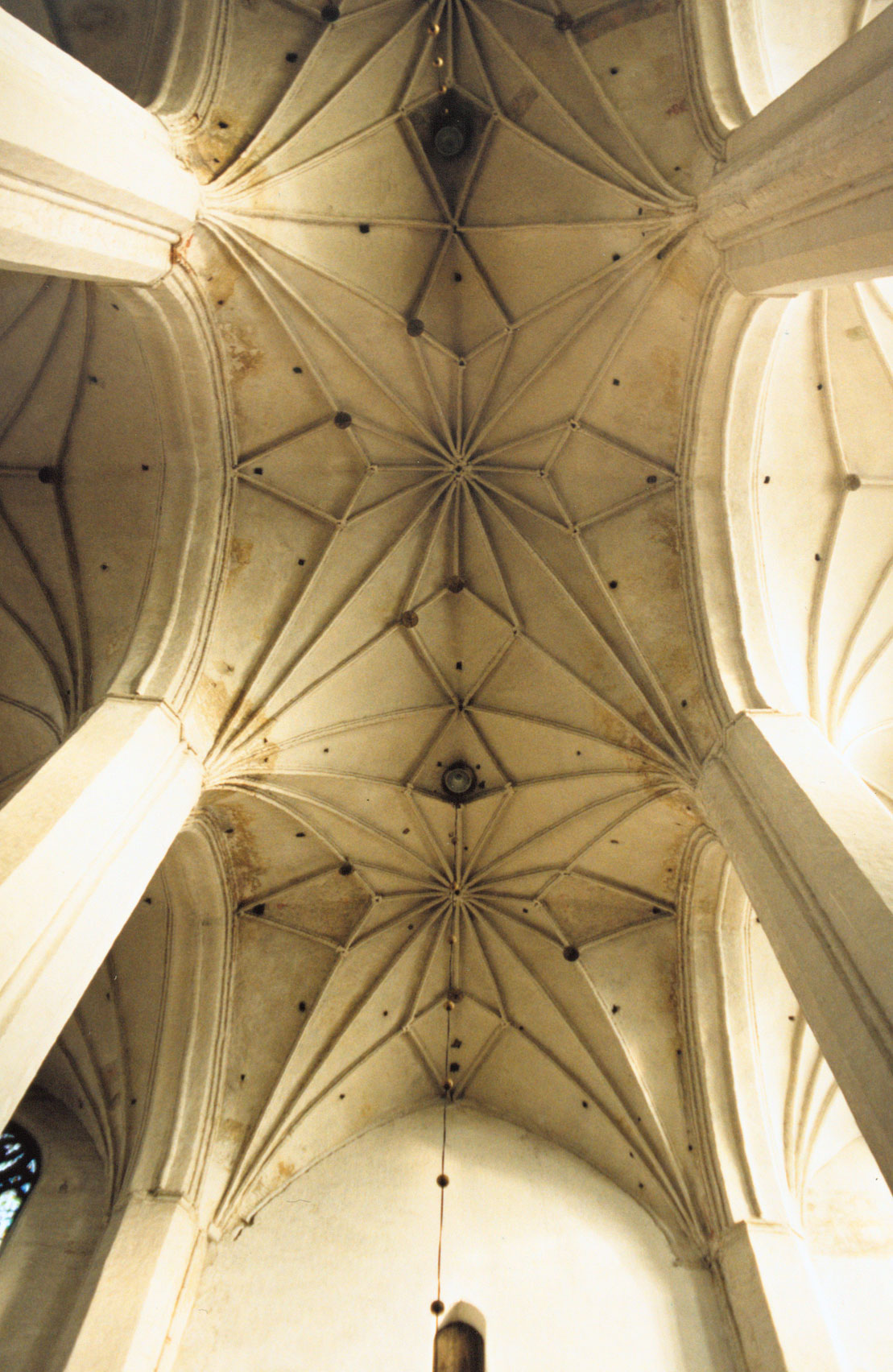 Star-vault of ss. Johns Cathedral viewed from below.